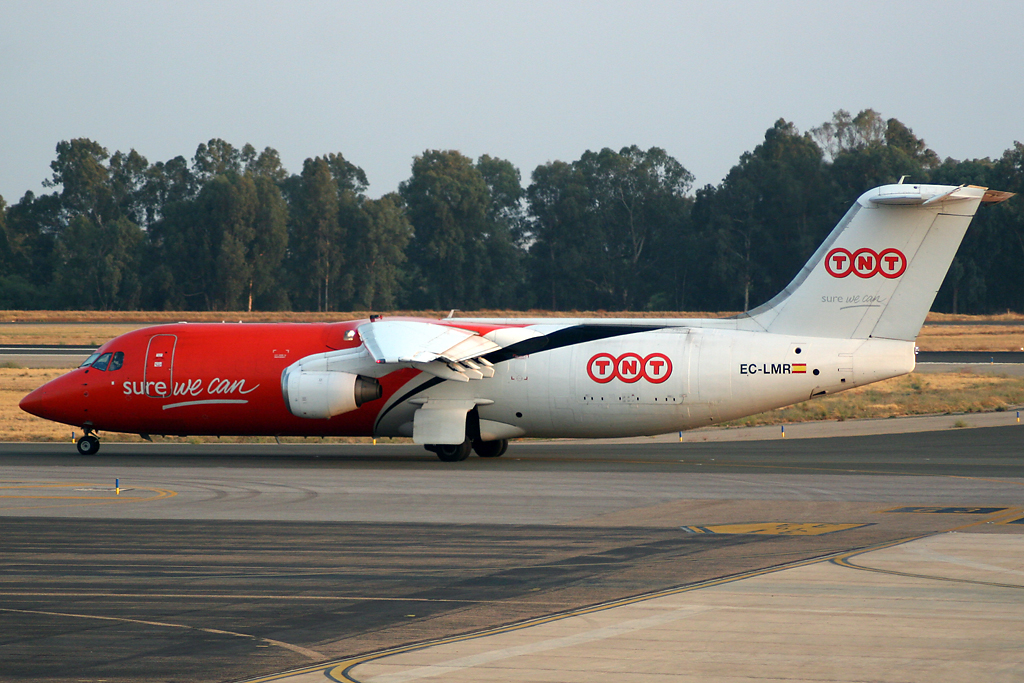 Construction Number (MSN) E3151 Aircraft Type British Aerospace 146-300 First Flight 24-09-1989